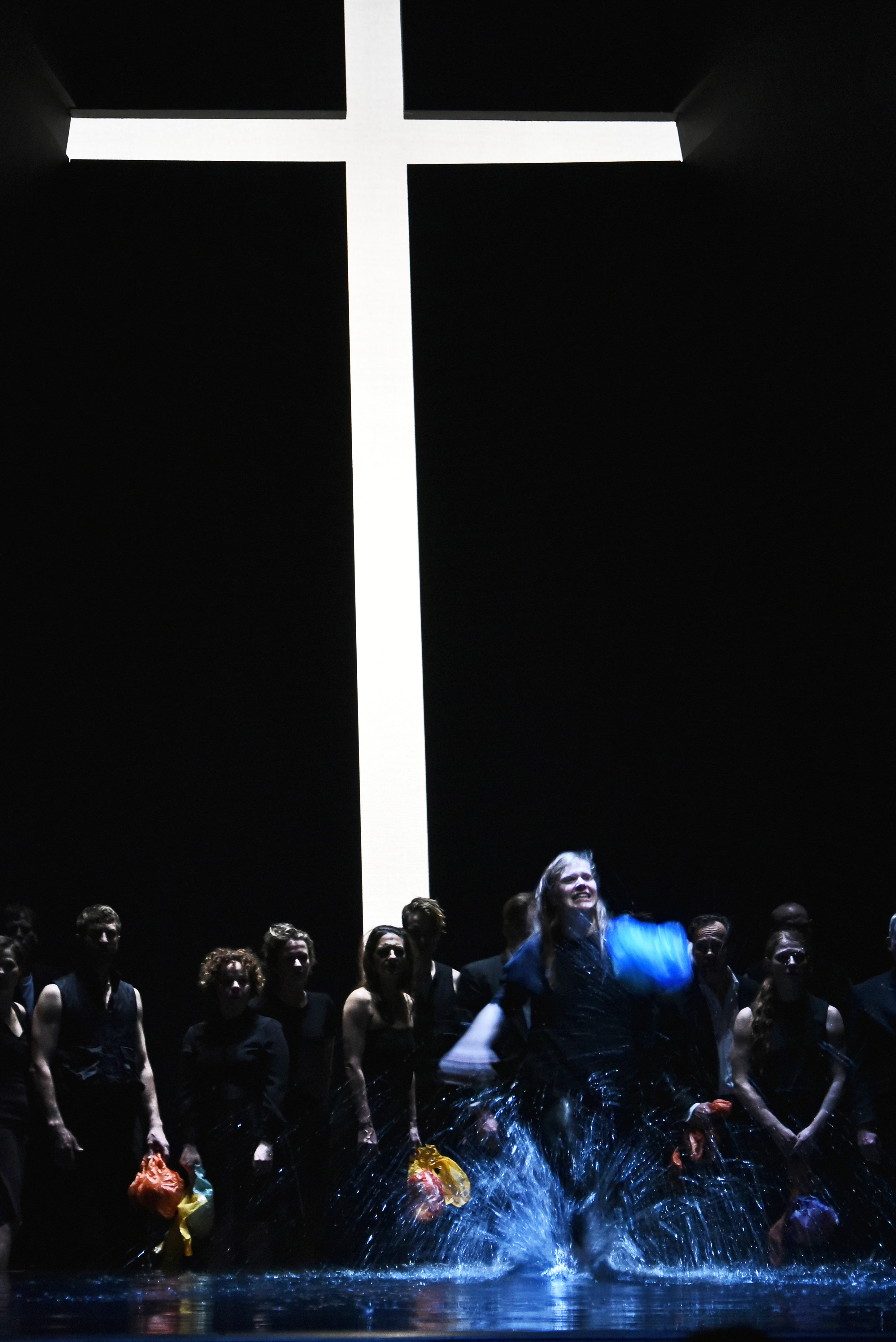 Die Schutzbefohlenen (von Elfriede Jelinek), Burgtheater Wien 2015